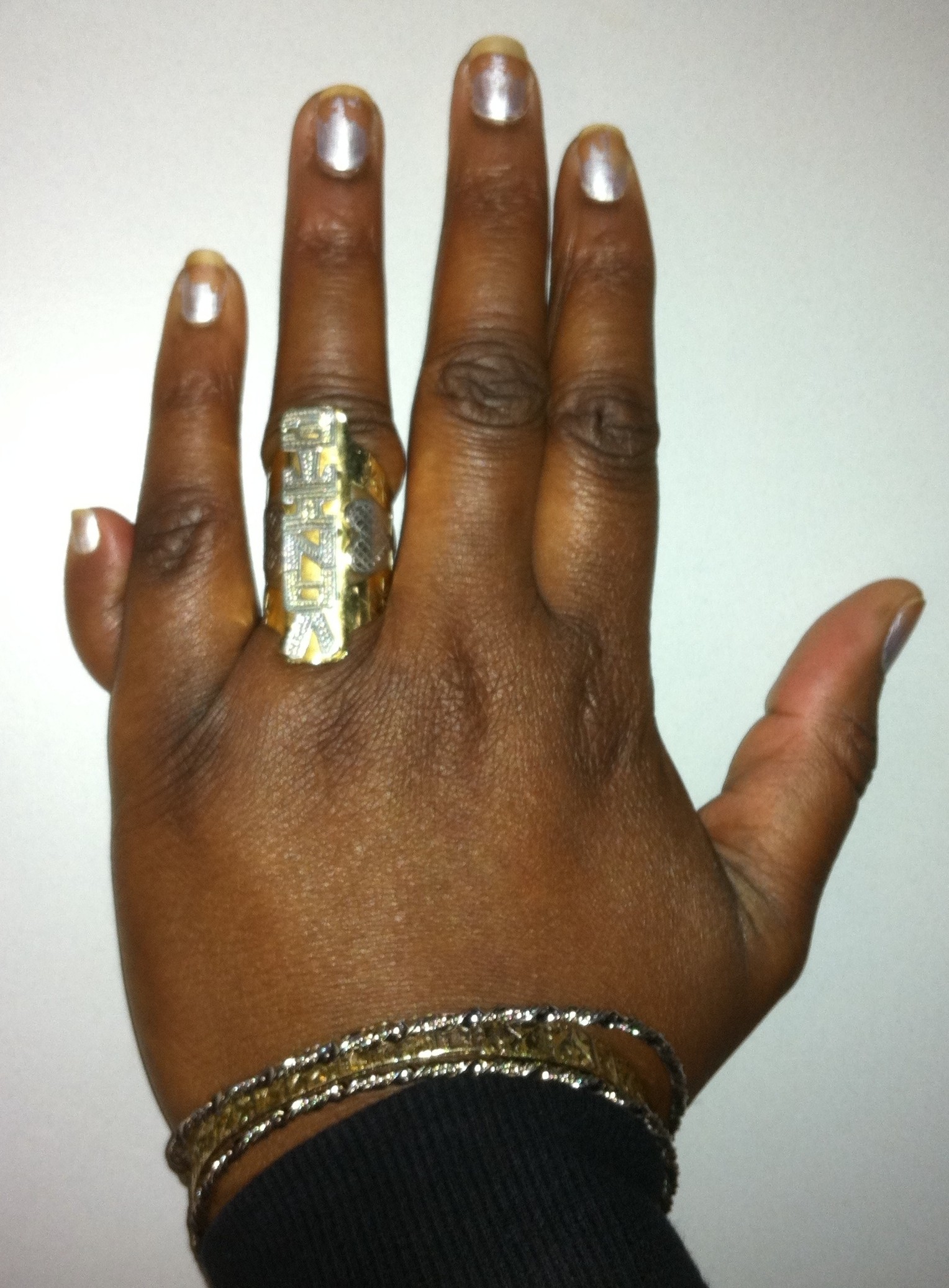 Afro North-American female with ulnar polydactyly. The supernumerary digit had normal sensation but no joint and hence could not move independently.